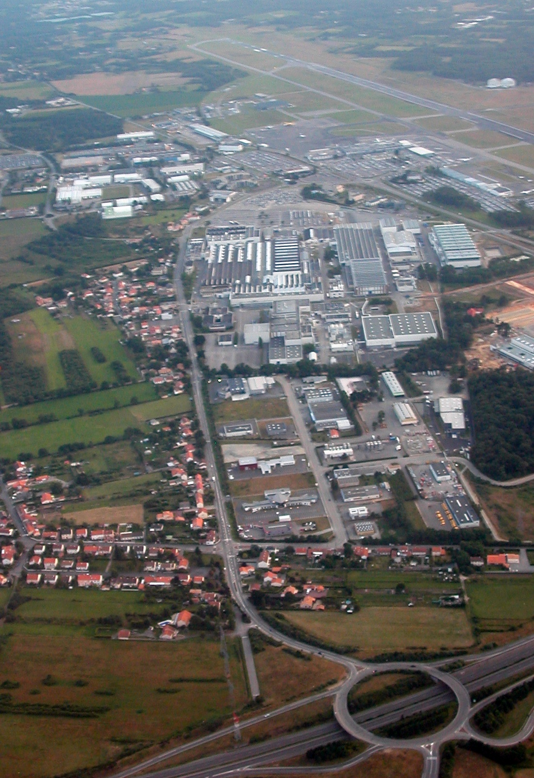 Nantes Atlantique Airport: runways and buildings from air